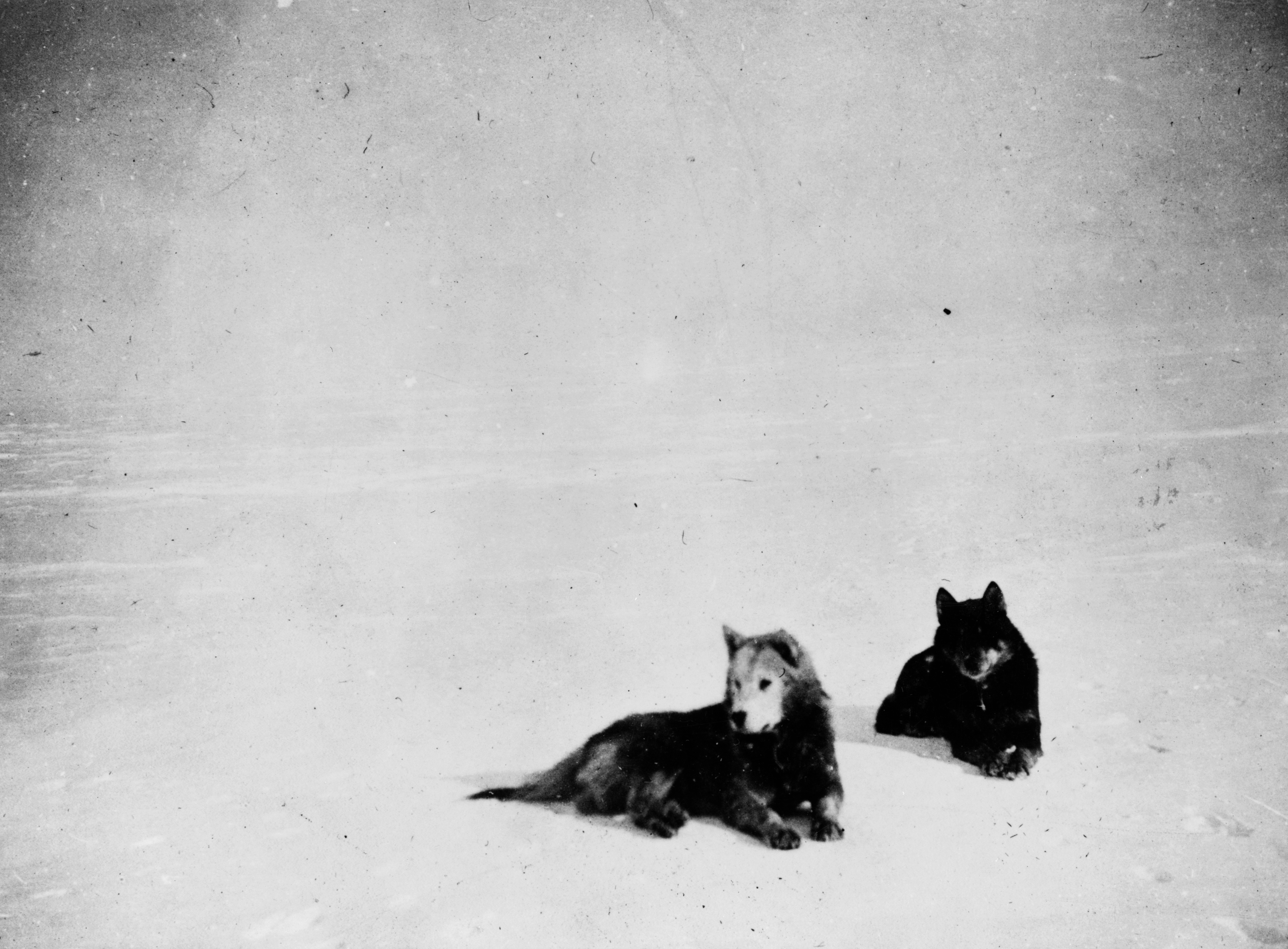 Original caption: “Amundsen's favorite dogs, Fix and Lassesin.” Reproduction Number: LC-USZ62-101002